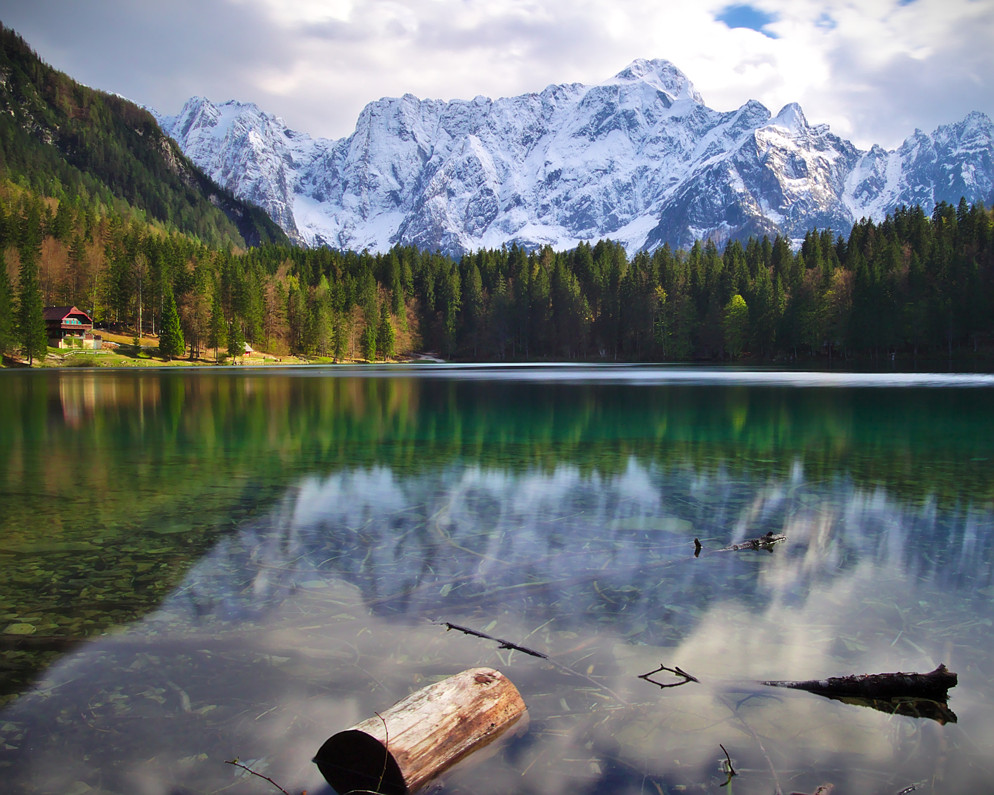 500px provided description: Laghi Di Fusine [#lake ,#mountains ,#spring ,#nature ,#long exposure ,#Italy ,#Europe ,#Tarvisio]